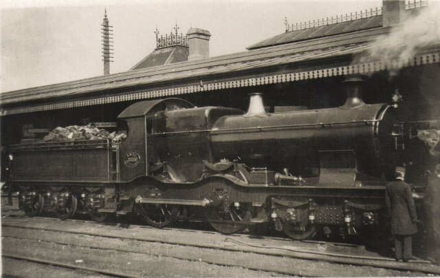 Great Western Railway 'Bulldog class' 4-4-0 locomotive 3338 Laira at an unidentified station.